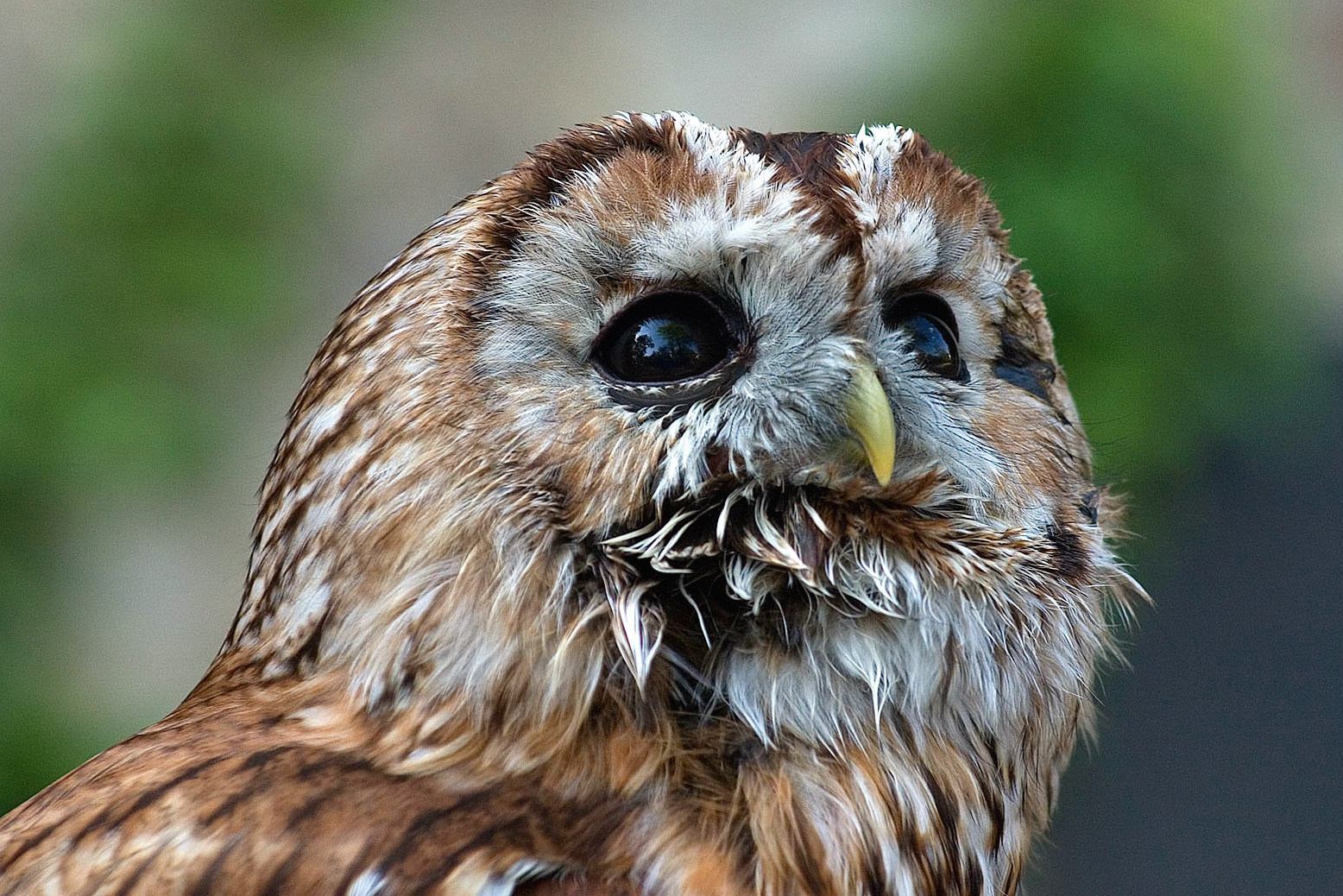 Tawny owl Author: Adam Kumiszcza